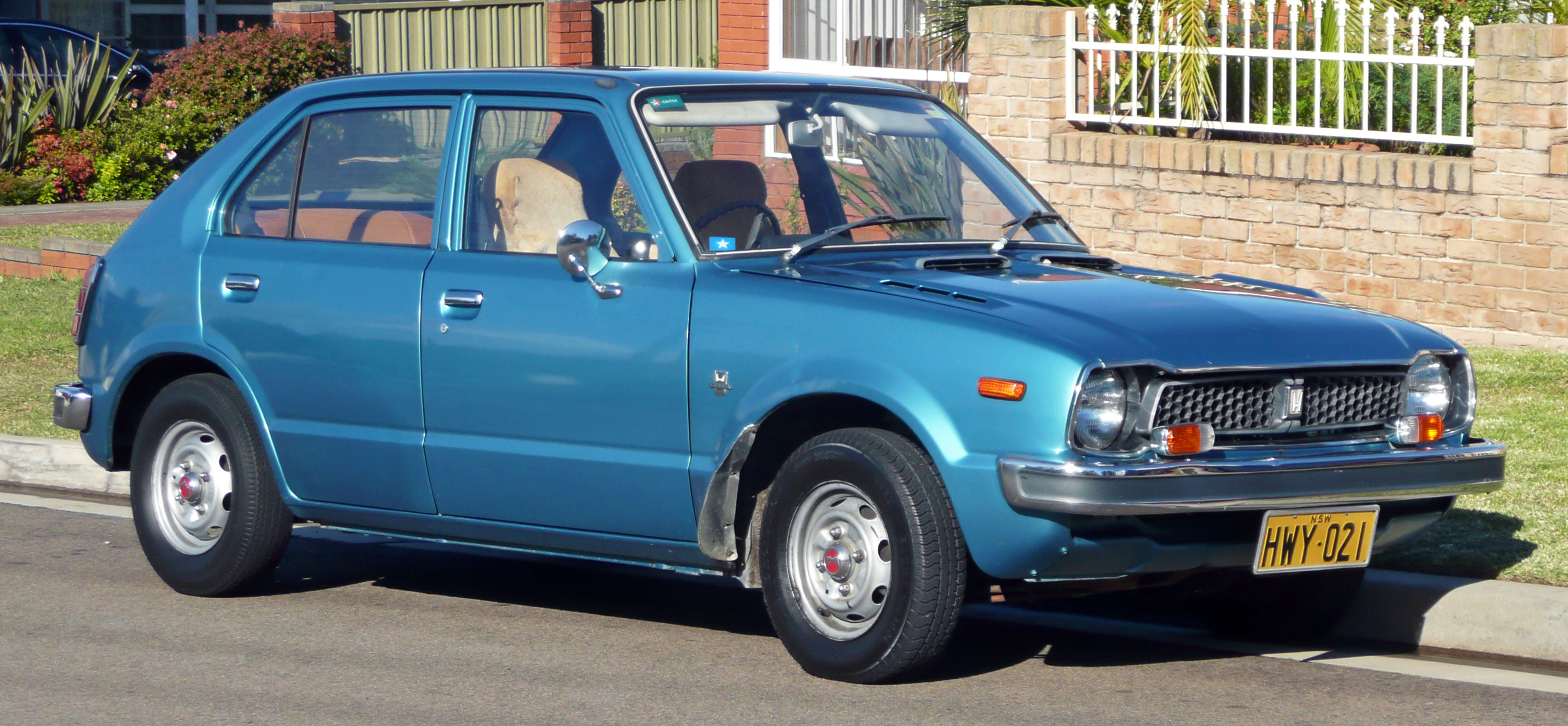 1976 Honda Civic 5-door hatchback. Photographed in Cronulla, New South Wales, Australia.